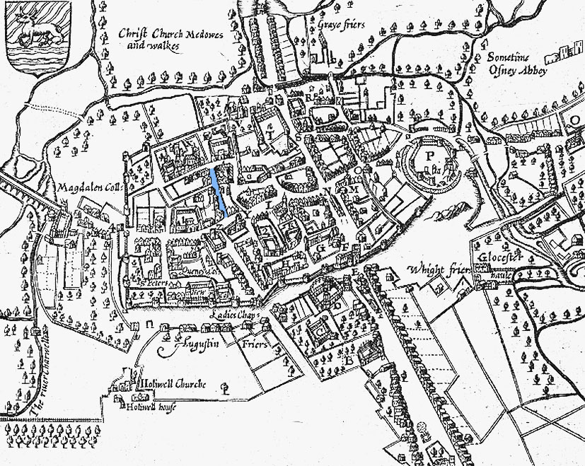 A 1605 map of Oxford, England, with north at the bottom. Gropecunt Lane is highlighted in blue on the left side of the image.